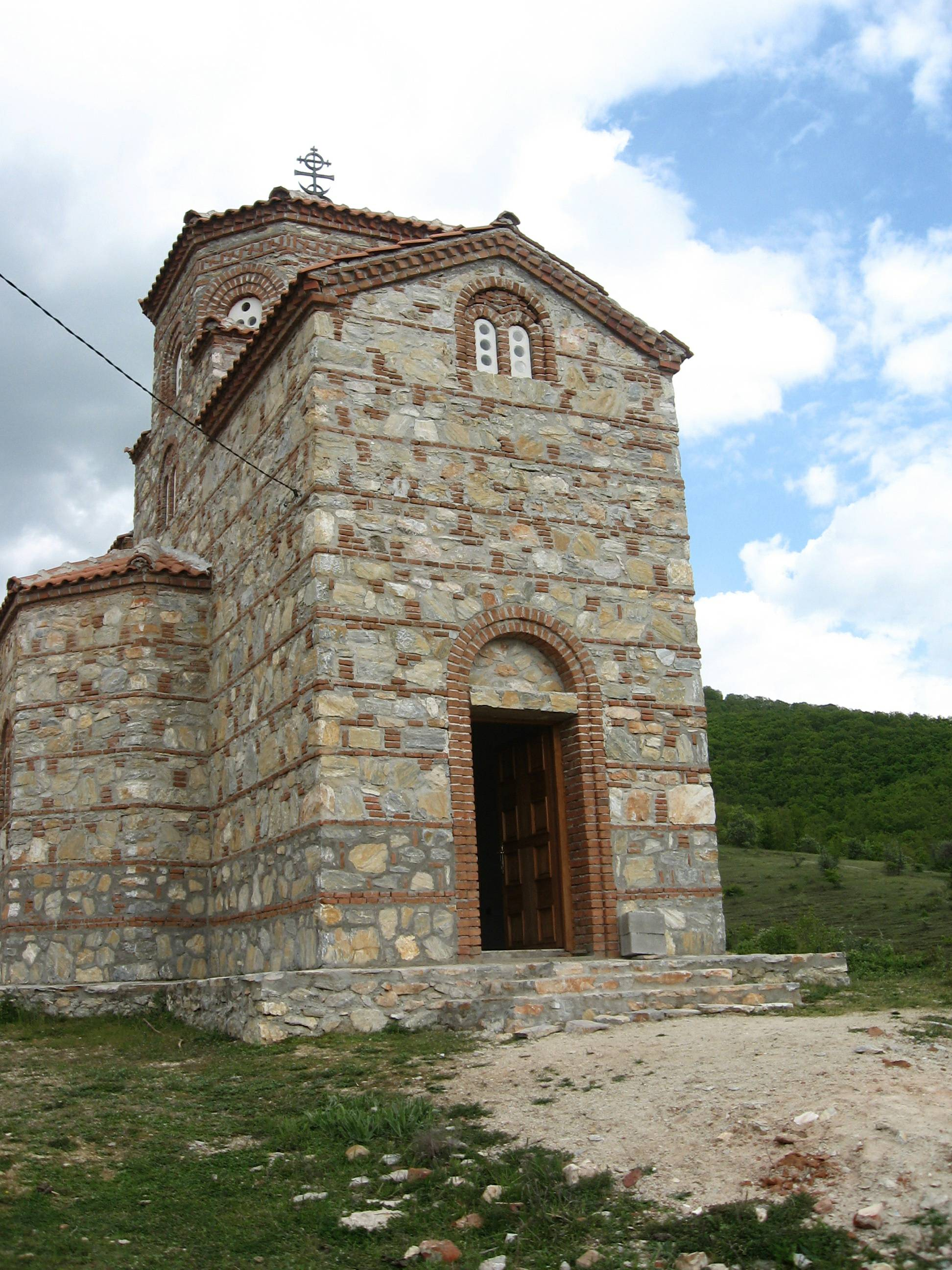 Sv.Bogorodica_Suvodol1